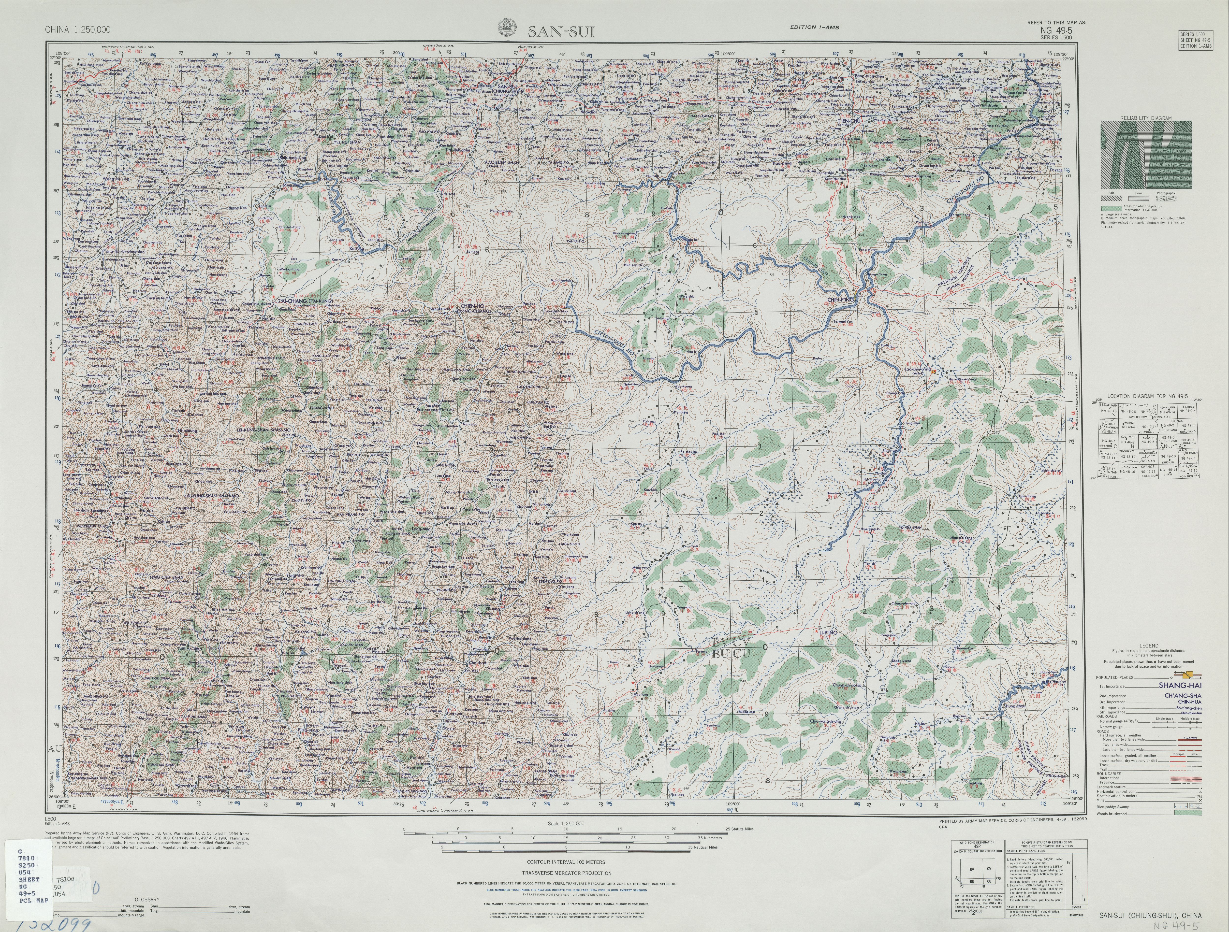 China AMS Topographic Maps